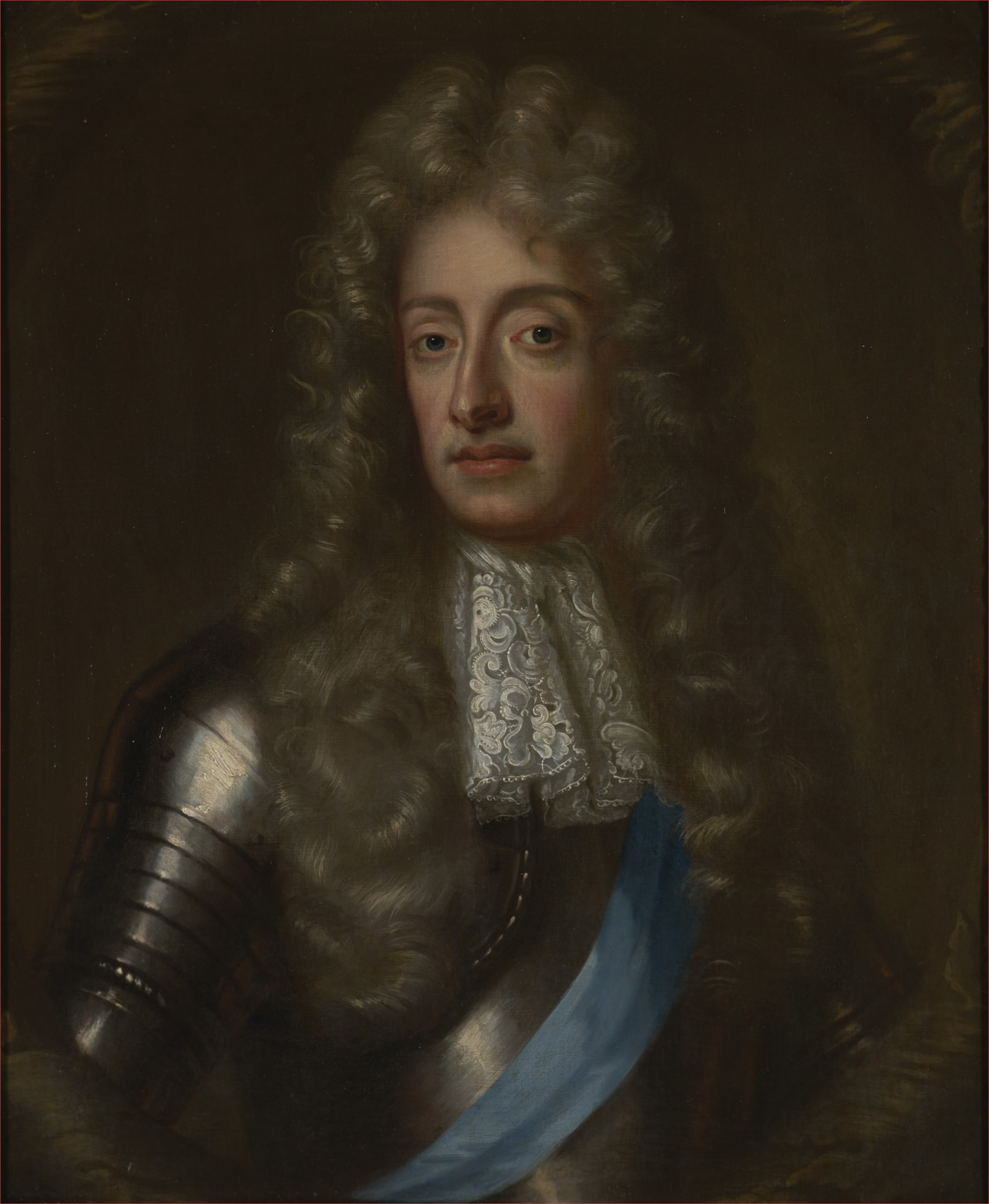 James II of England